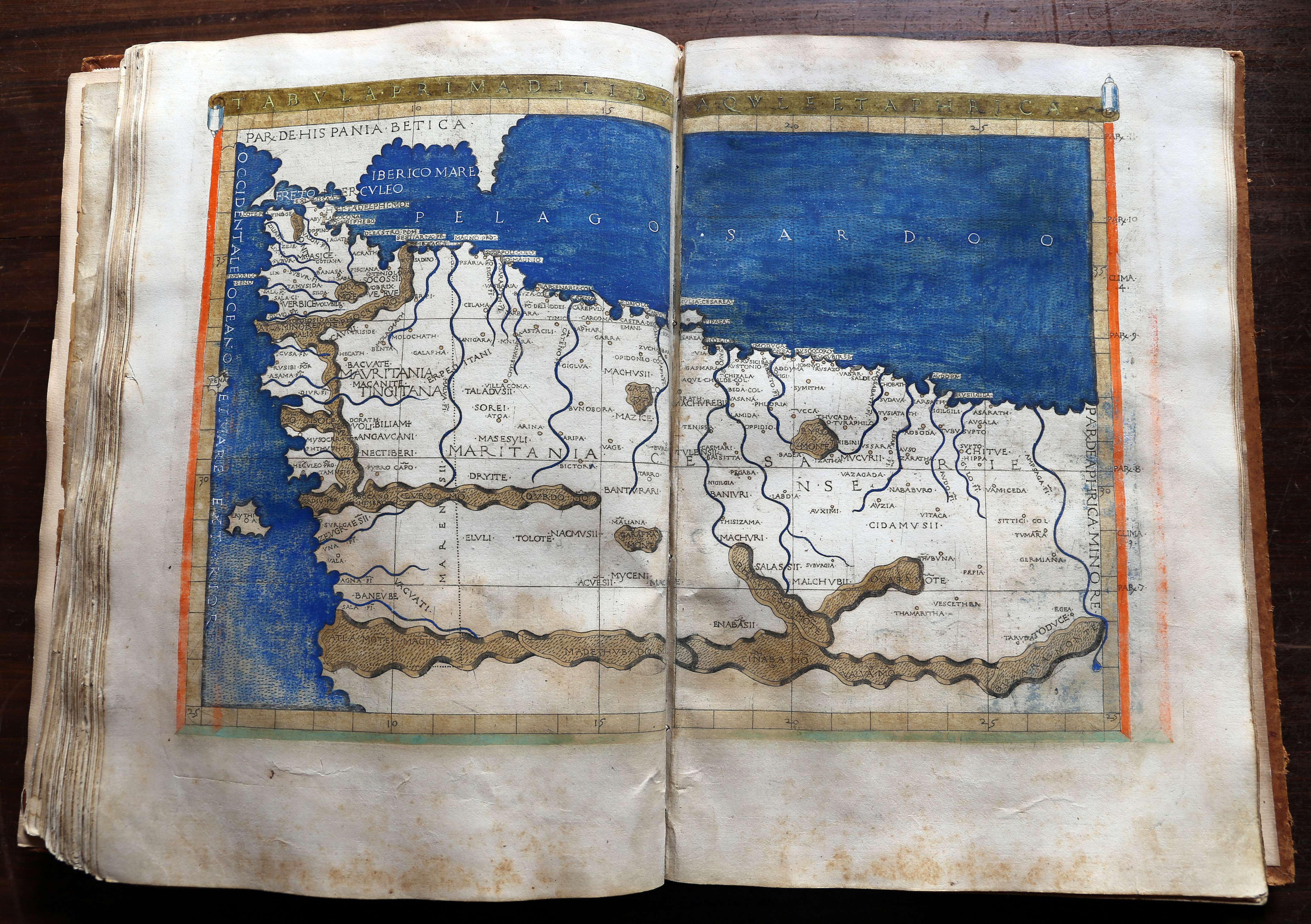 Geographia by Francesco Berlinghieri (Crusca)